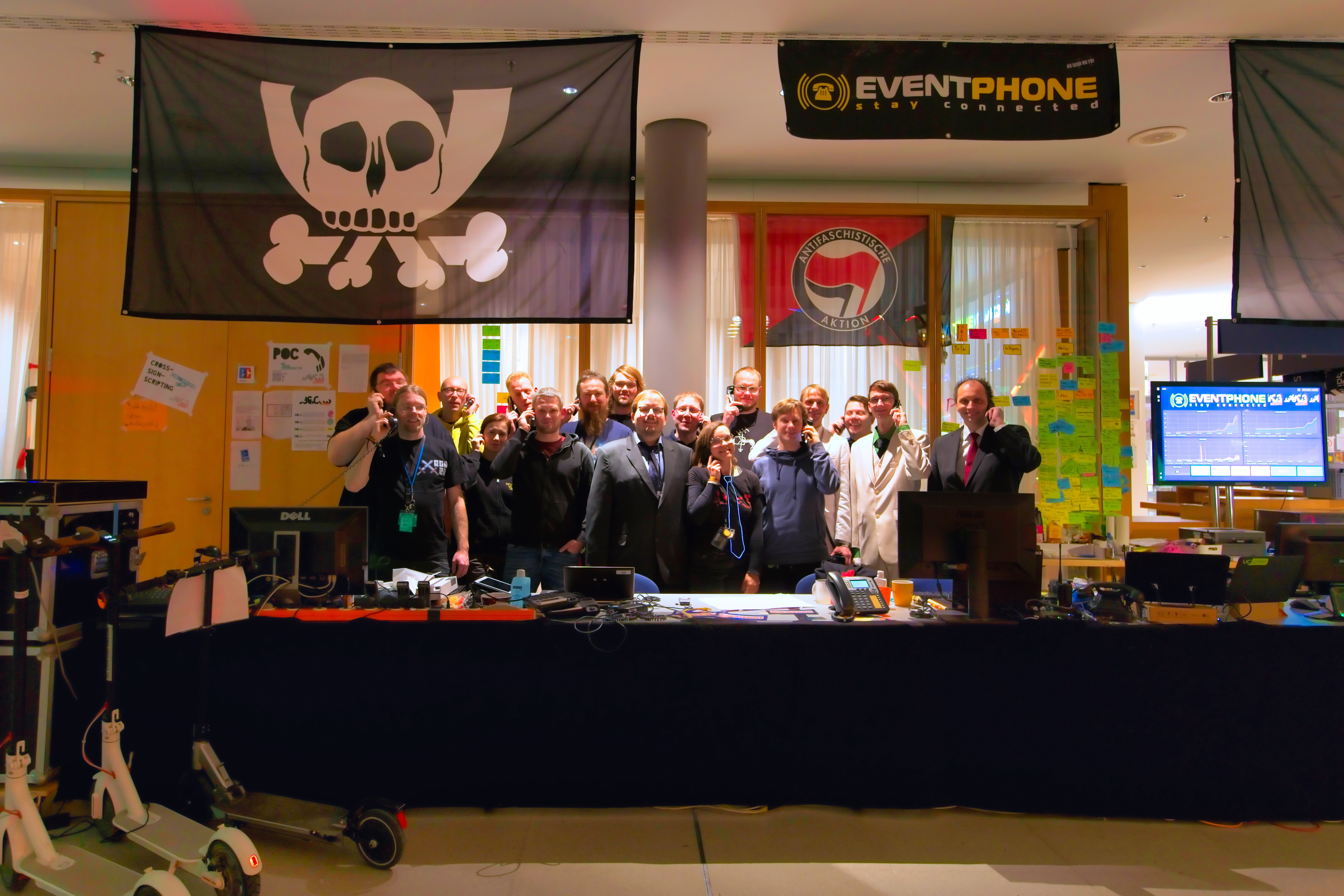 Eventphone (PoC) group photo 36th Chaos Communication Congress (36c3) day 1 (27.12.2019)